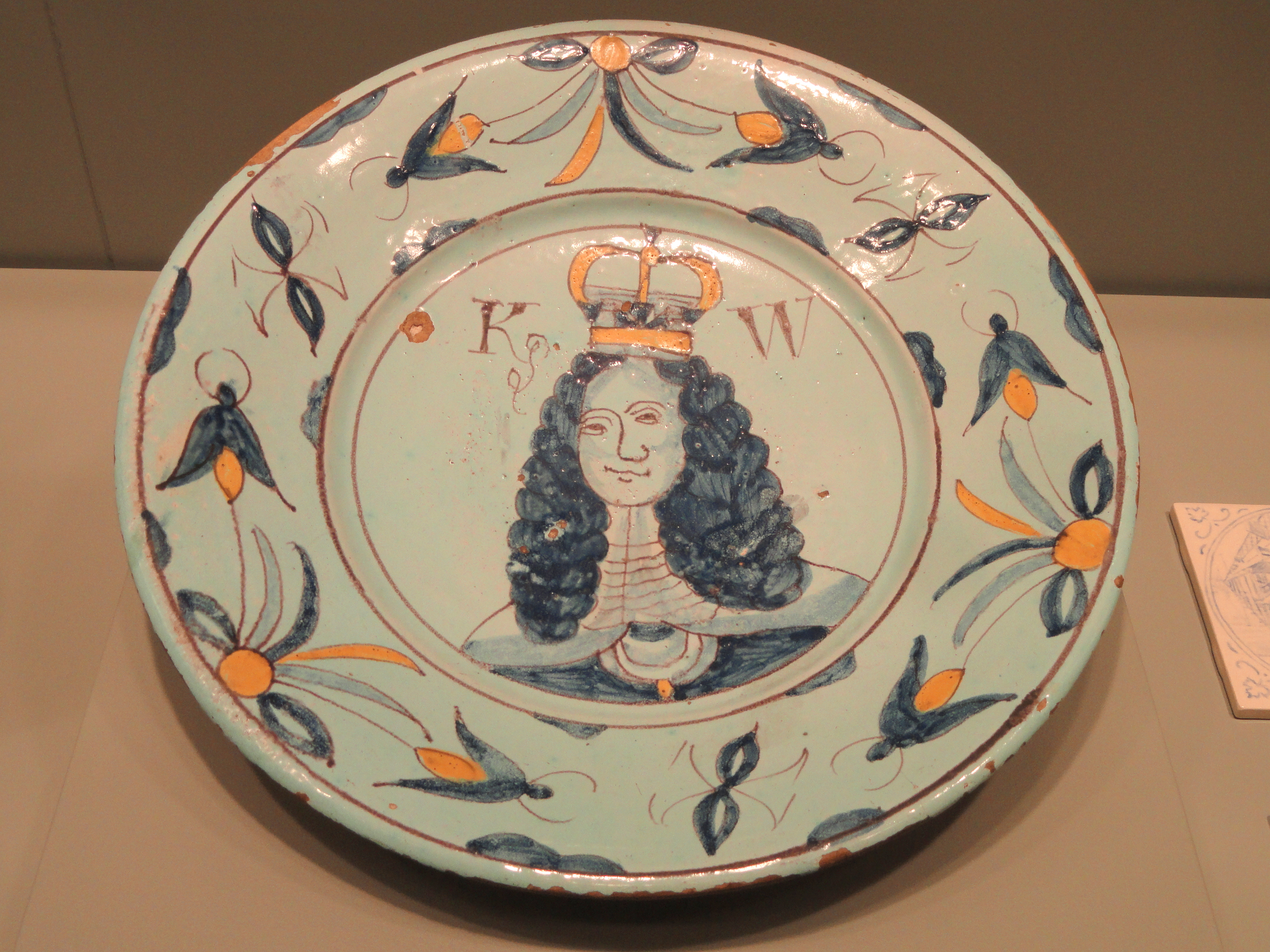 Exhibit in the Gardiner Museum, Toronto, Ontario, Canada. This artwork is in the public domain because the artist died more than 70 years ago.